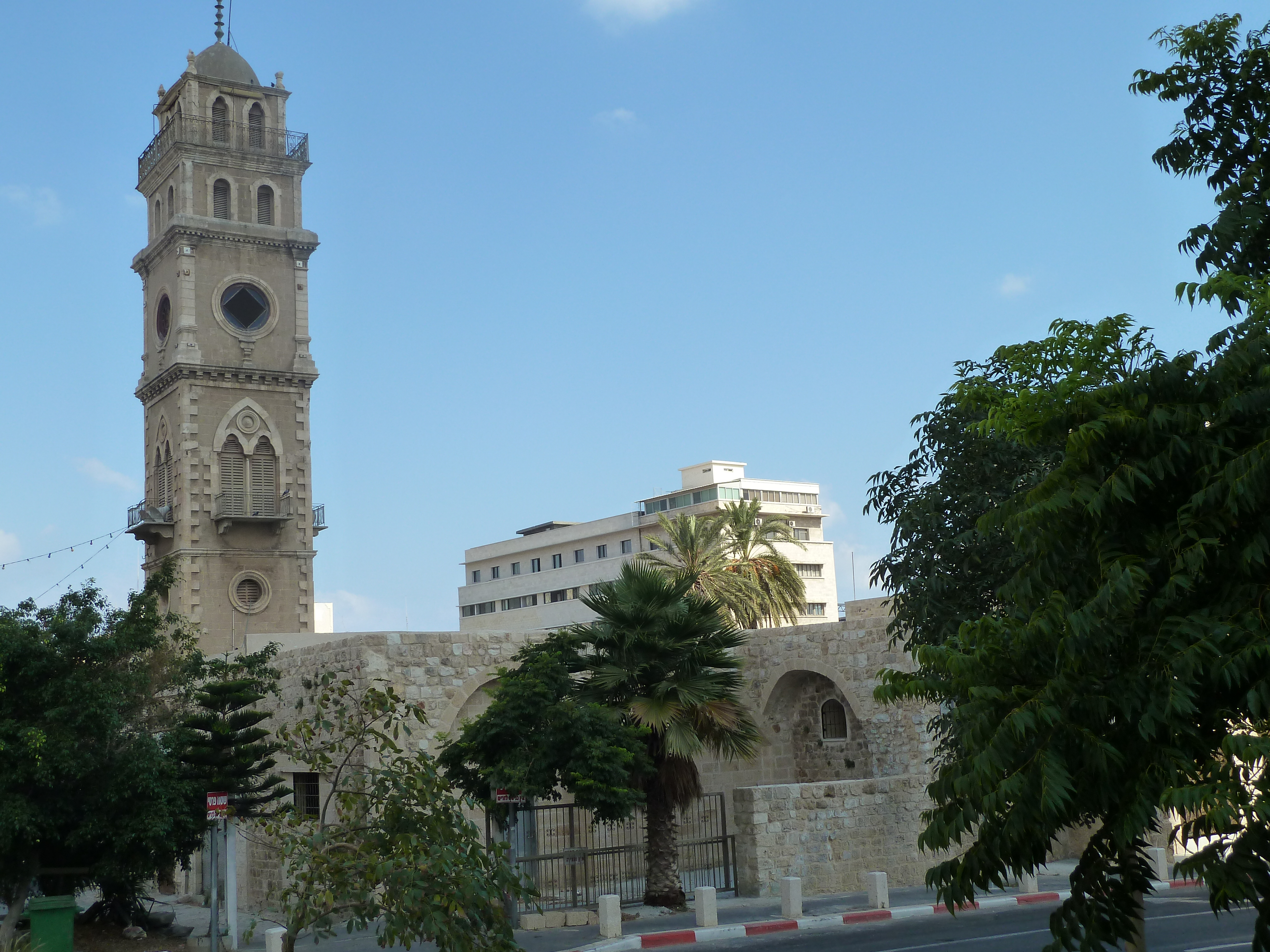 Al Jarina mosque, Downtown, Haifa.